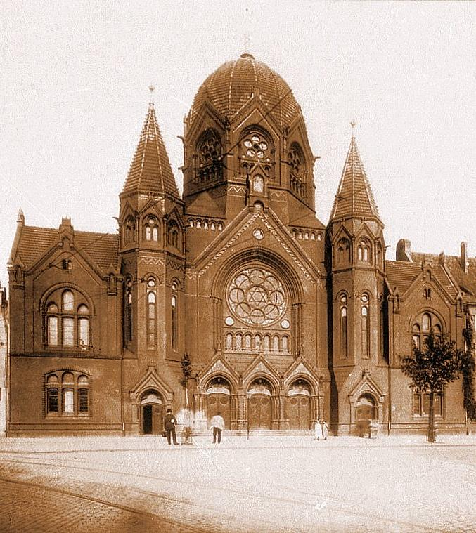 New Synagogue at Koenigsberg, East Prussia